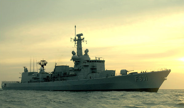 F931 Louise Marie, a Karel Doorman-class frigate with the Belgian Naval Component.